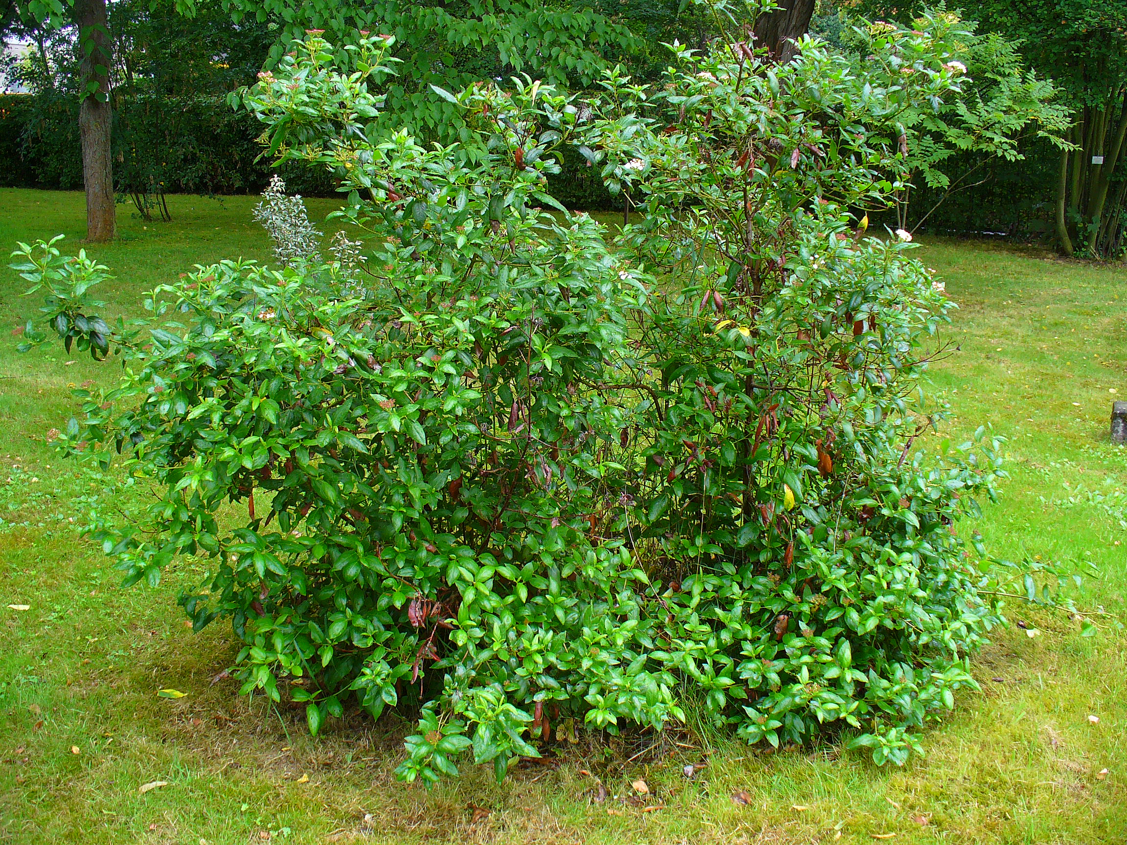 Viburnum tinus, Adoxaceae, Laurustinus Viburnum, Laurestine, habitus. Botanical Garden KIT, Karlsruhe, Germany.